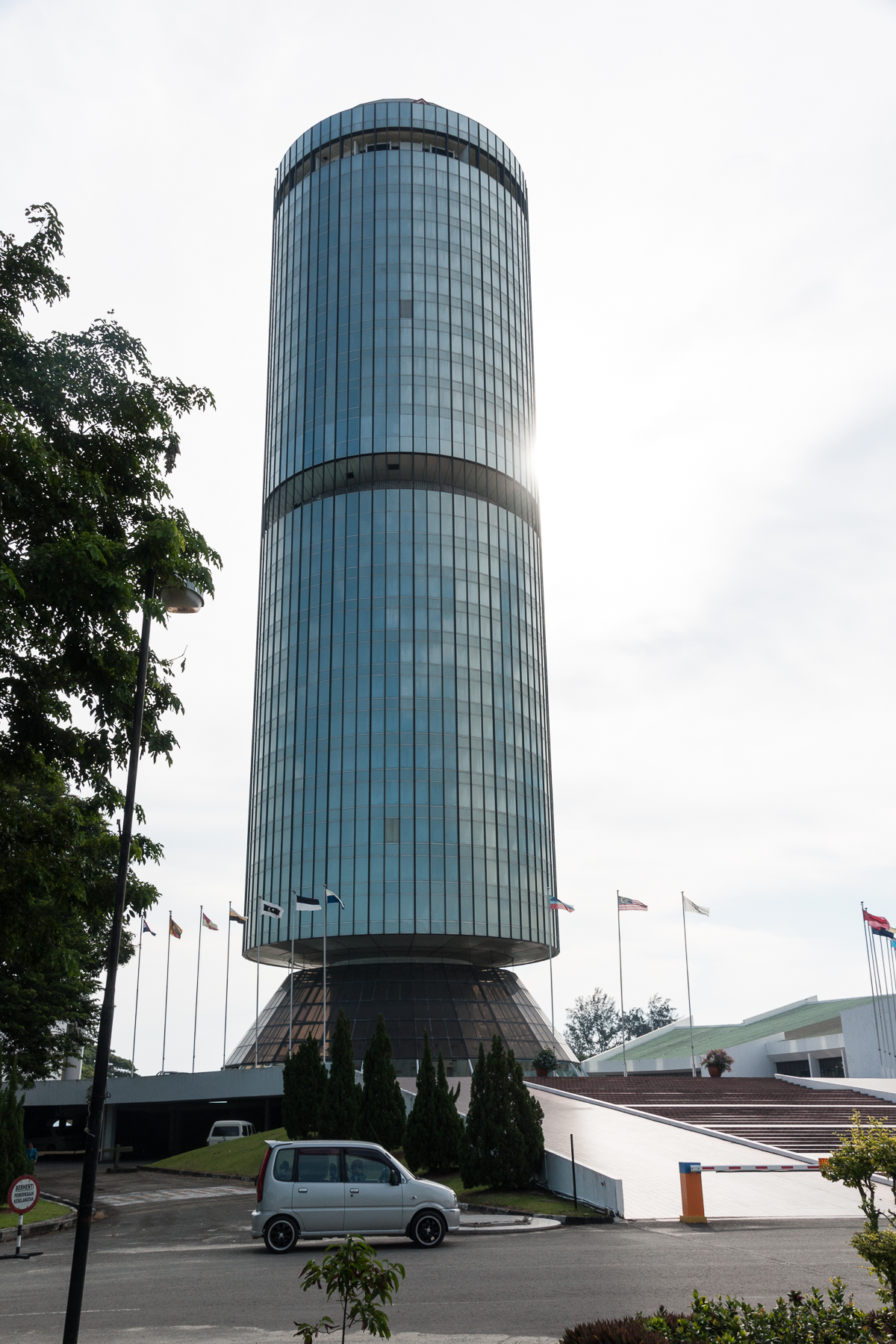 Kota Kinabalu, Sabah: Tun Mustapha Tower (Menara Tun Mustapha)